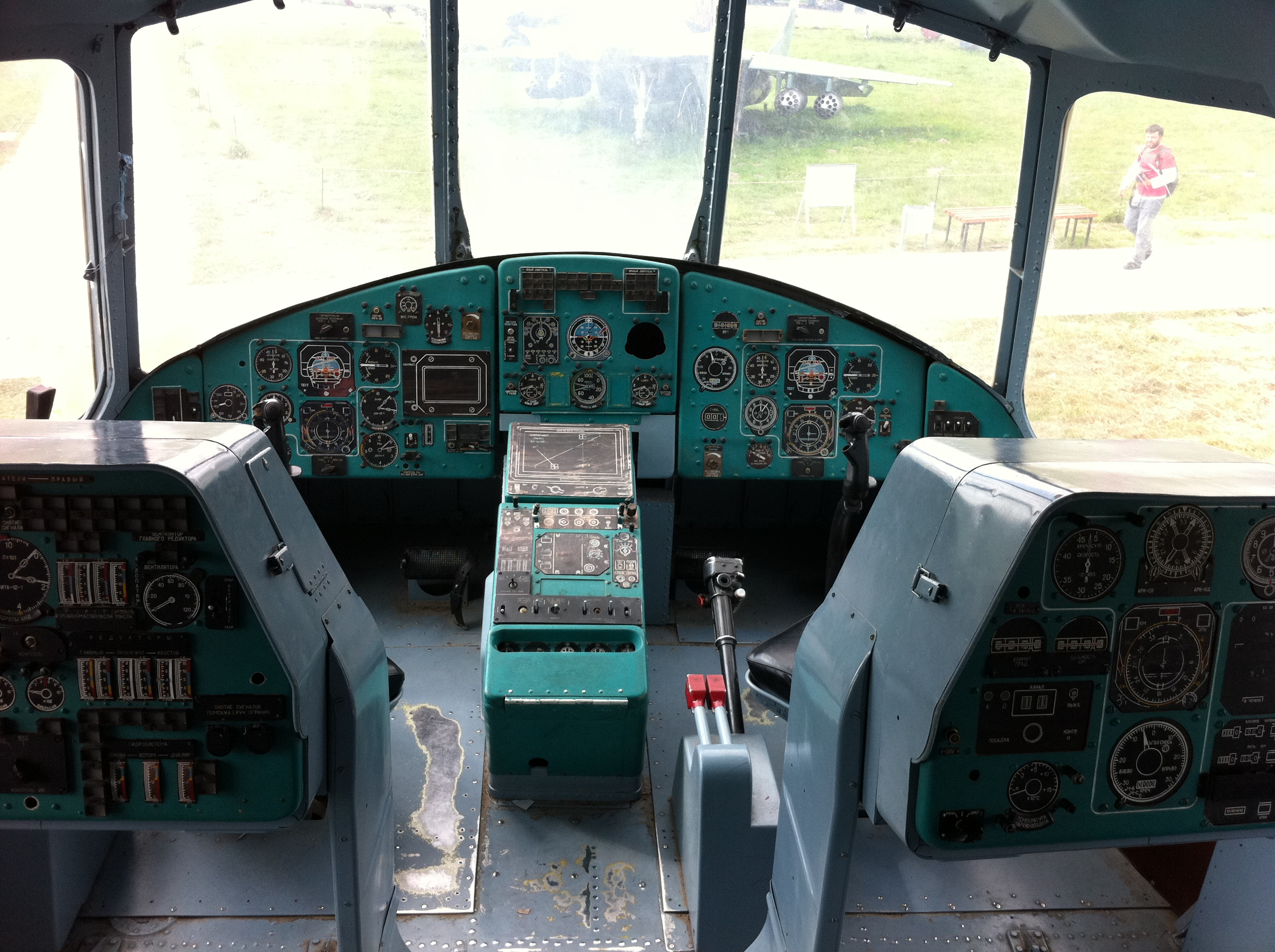 at the Aviation museum of Zhulyany Airport, Kiev, Ukraine